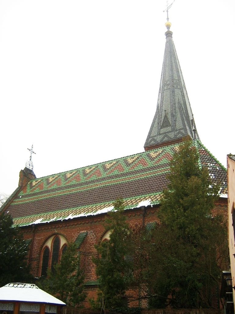 Village Geltow with church, Gemeinde Schwielowsee, Brandenburg, Germany.